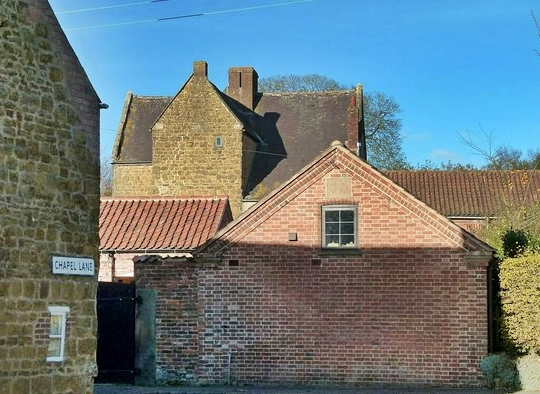 Manor House, Ab Kettleby. A Grade II* listed building.